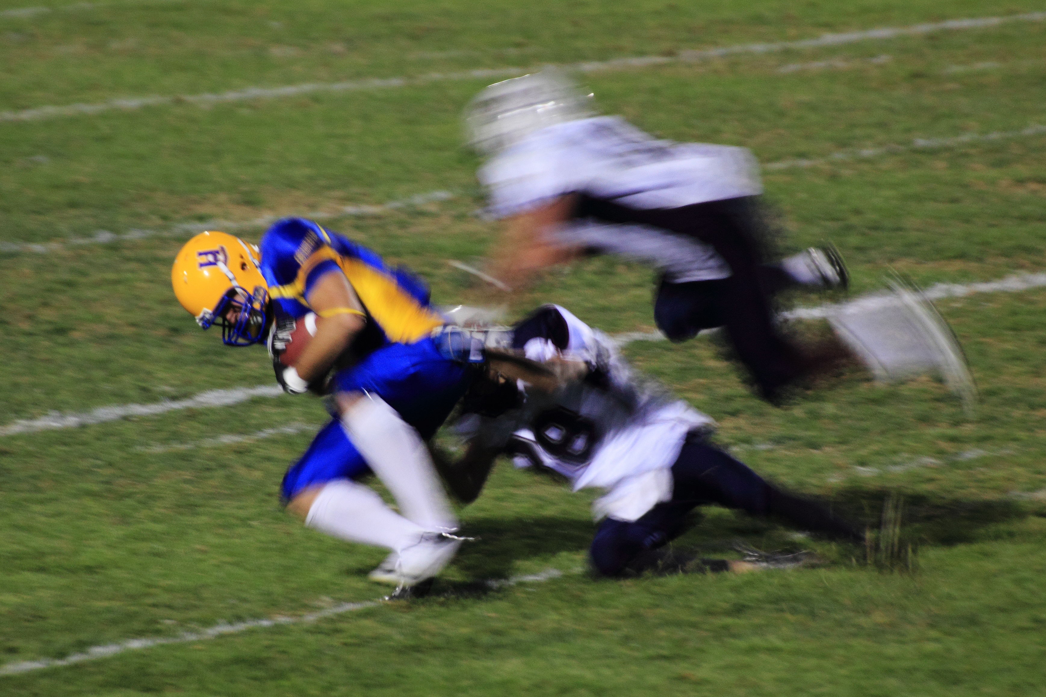 September 8, 2012 7:00 pm game for the Hilltops in the Prairie Football Conference. Canadian Junior Football League teams included Regina and Saskatoon. Regina Thunder were the visitors at Gordie Howe Bowl home to the Saskatoon Hilltops The game ended 36-10 in favour of the Hilltops. Photograph attribution Julia Adamson This image is not in the public domain, if you use it or modify it publication is under the same license, and if you re-use it attribution is required. Please e-mail if you decide to re----use it that would be wonderful! Photo taken at night...1/2 hour after the sun totally went down. Photo taken from the stands and not on the field. Play...Hilltops have the ball on the 20 and there are 20 yards to go. Throw is off, Catch is good! This picture is of the catch and being tackled by Regina Thunder Defensive Back #38 Landon Walter, .... Ball ends up on the 32nd yard line after this play, second down. Now then three plays after this one Hilltops score a Touch Down score is now 9-9 at 1:15 minutes remaining in the second quarter. Convert is good, Go into half time with a score of 10-9 for the Saskatoon Hilltops.